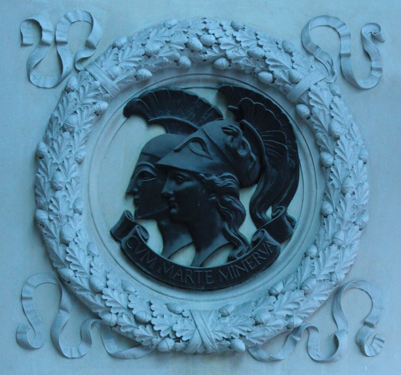 Memorial to the Artists Rifles, Royal Academy, London